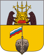 Vytegra (Vologda oblast), coat of arms (1781)